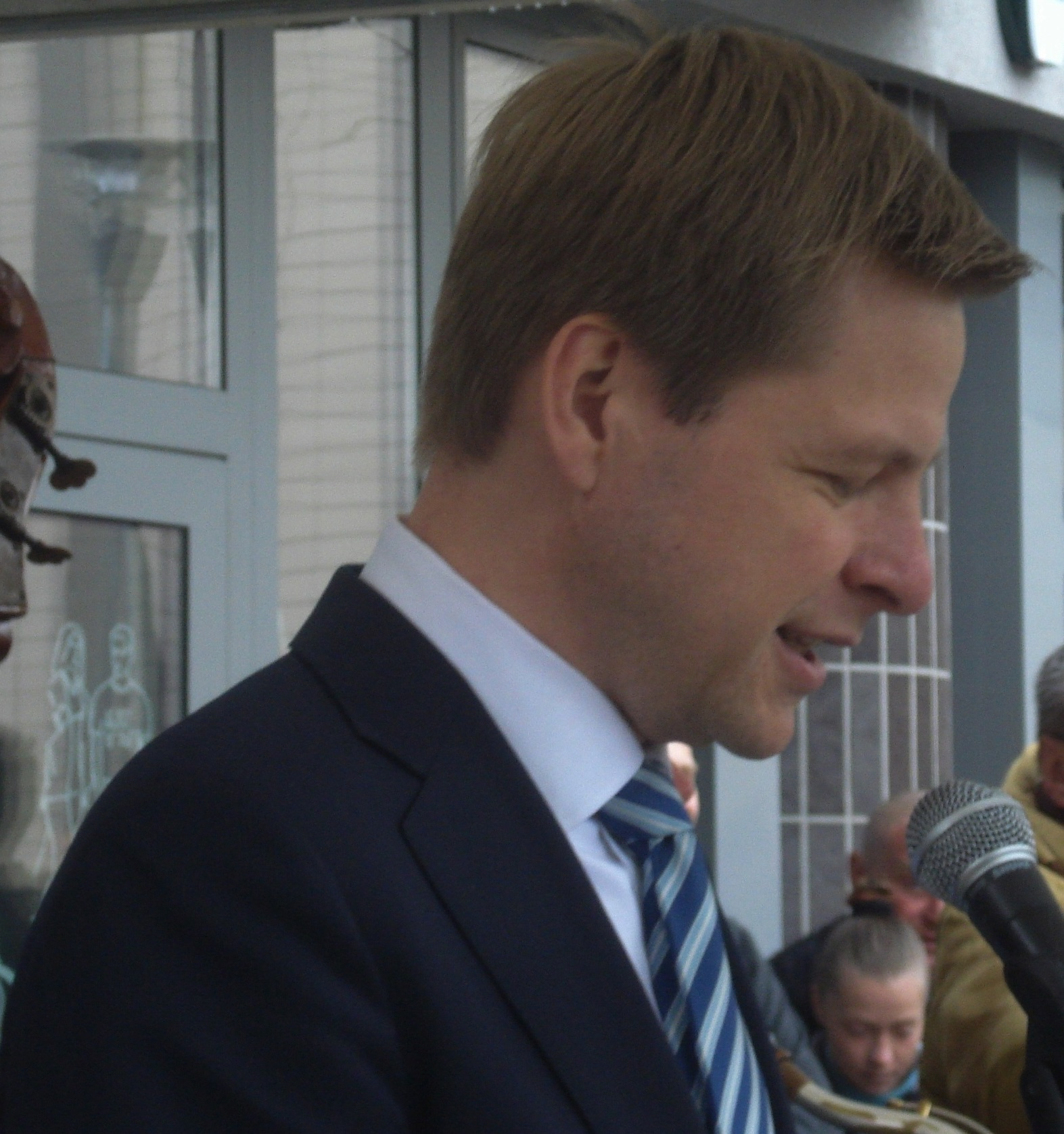 Remigijus Šimašius (born 1974), Lithuanian jurist and politician, member of Seimas (2012-2016), Minister of Justice (2008-2012), Mayor of Vilnius since 2015